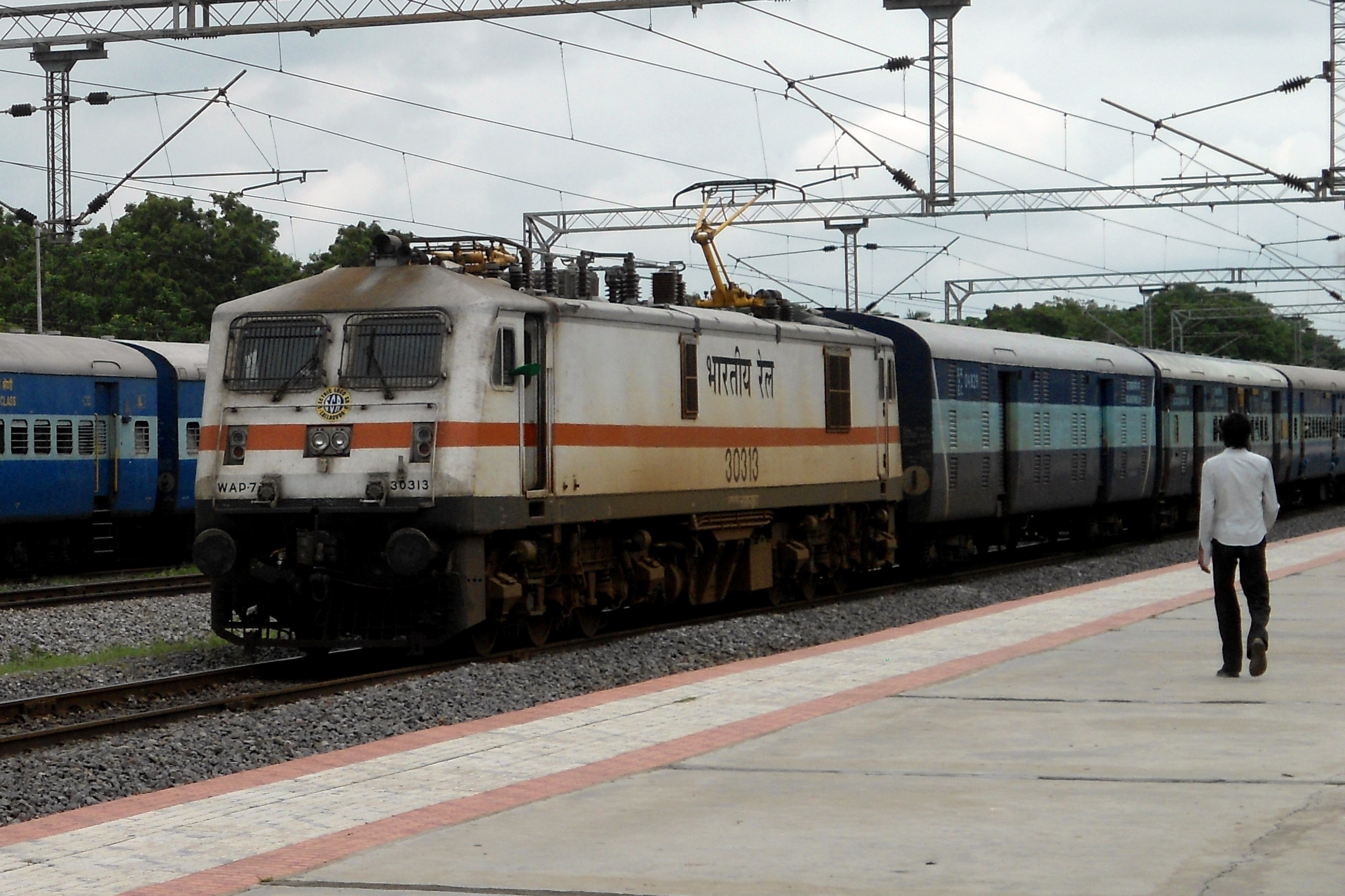 12713 SC bound Sathavahana Express with a WAP-7 class loco at Ghatkesar Railway station